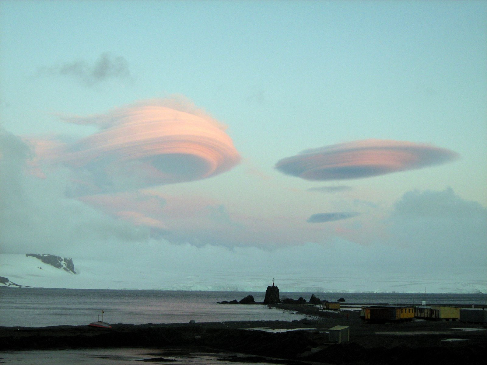 Altocumulus lenticularis above the Arctowski Station